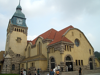 former German Christian Church in Qingdao, China (Shandong province)